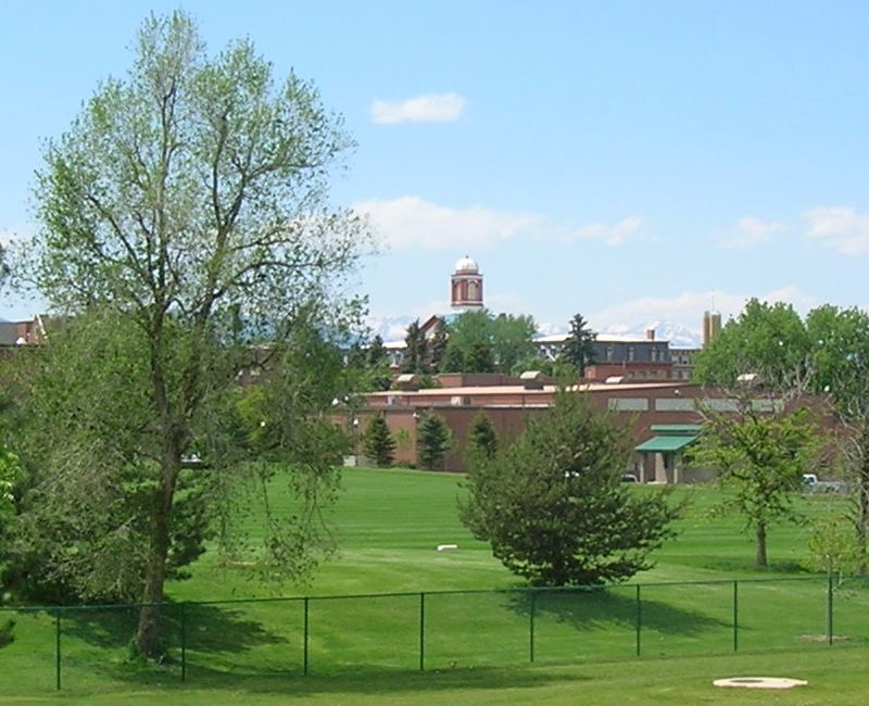 This is a photo facing northwest of the athletic fields, Field House, and Main Hall at Regis University in Denver, Colorado.